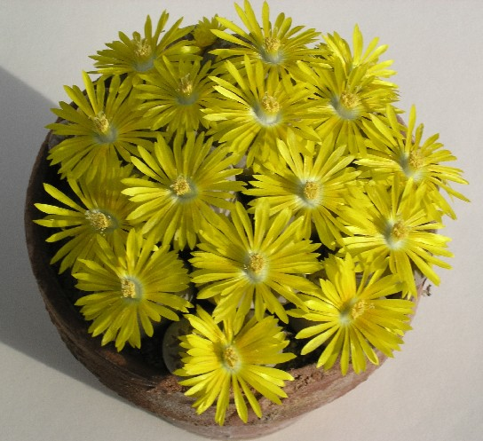 philip2007, foto propria, fioritura di Lithops dorotheae